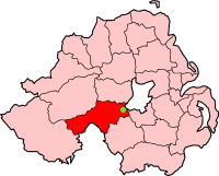 Coalisland map